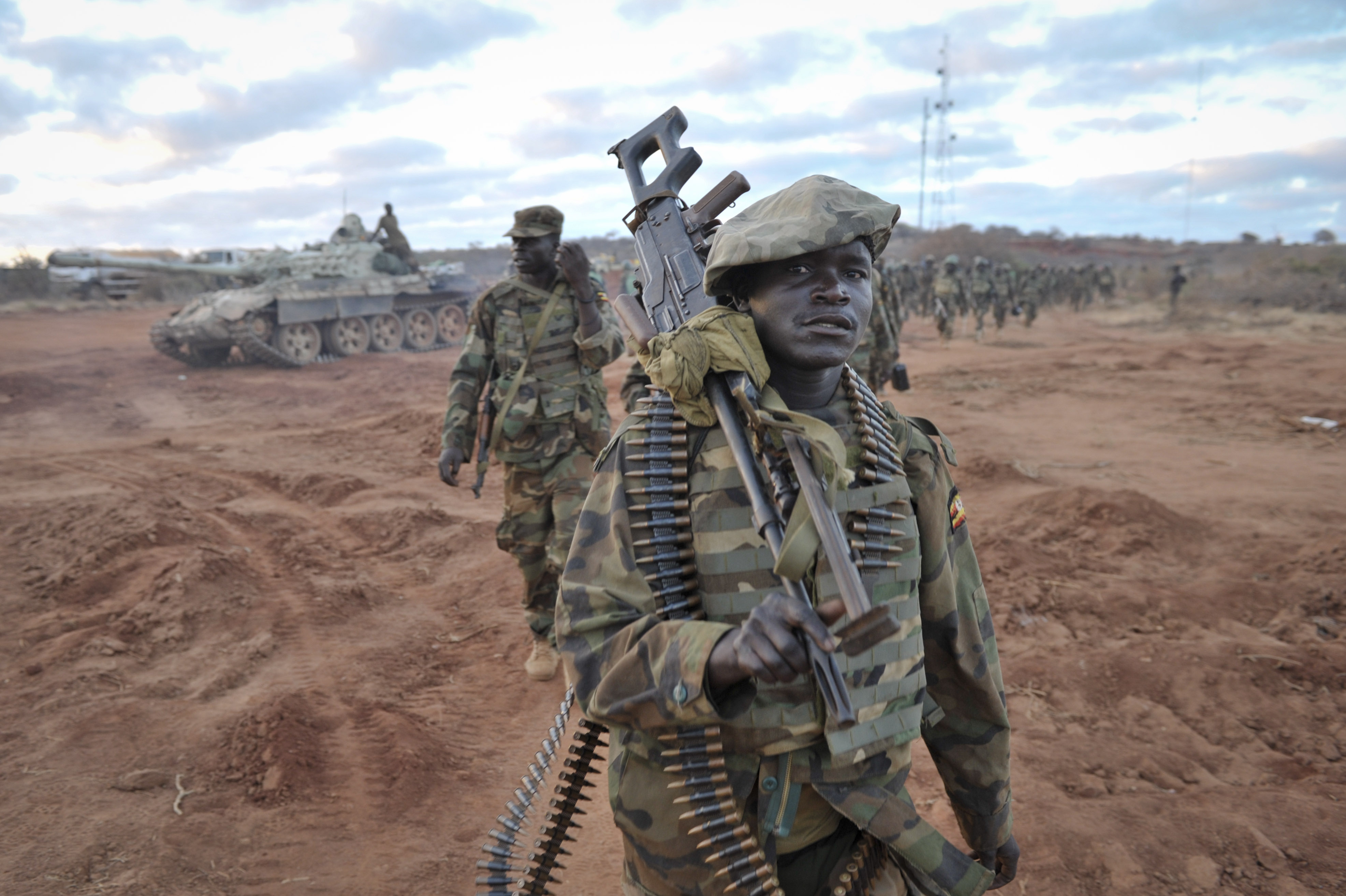 Somali National Army (SNA) soldiers alongside Ugandan forces serving with the African Union Mission in Somalia (AMISOM) advance towards Buur-Hakba from their former position in the town of Leego, central Somalia, February 24, 2013. AMISOM and SNA forces advanced towards Buur-Hakba to open up the road between Mogadishu and Somalia's second city Baidoa and connect the two areas under the control of the Somali Federal Government supported by AMISOM. AU UN IST PHOTO / TOBIN JONES.